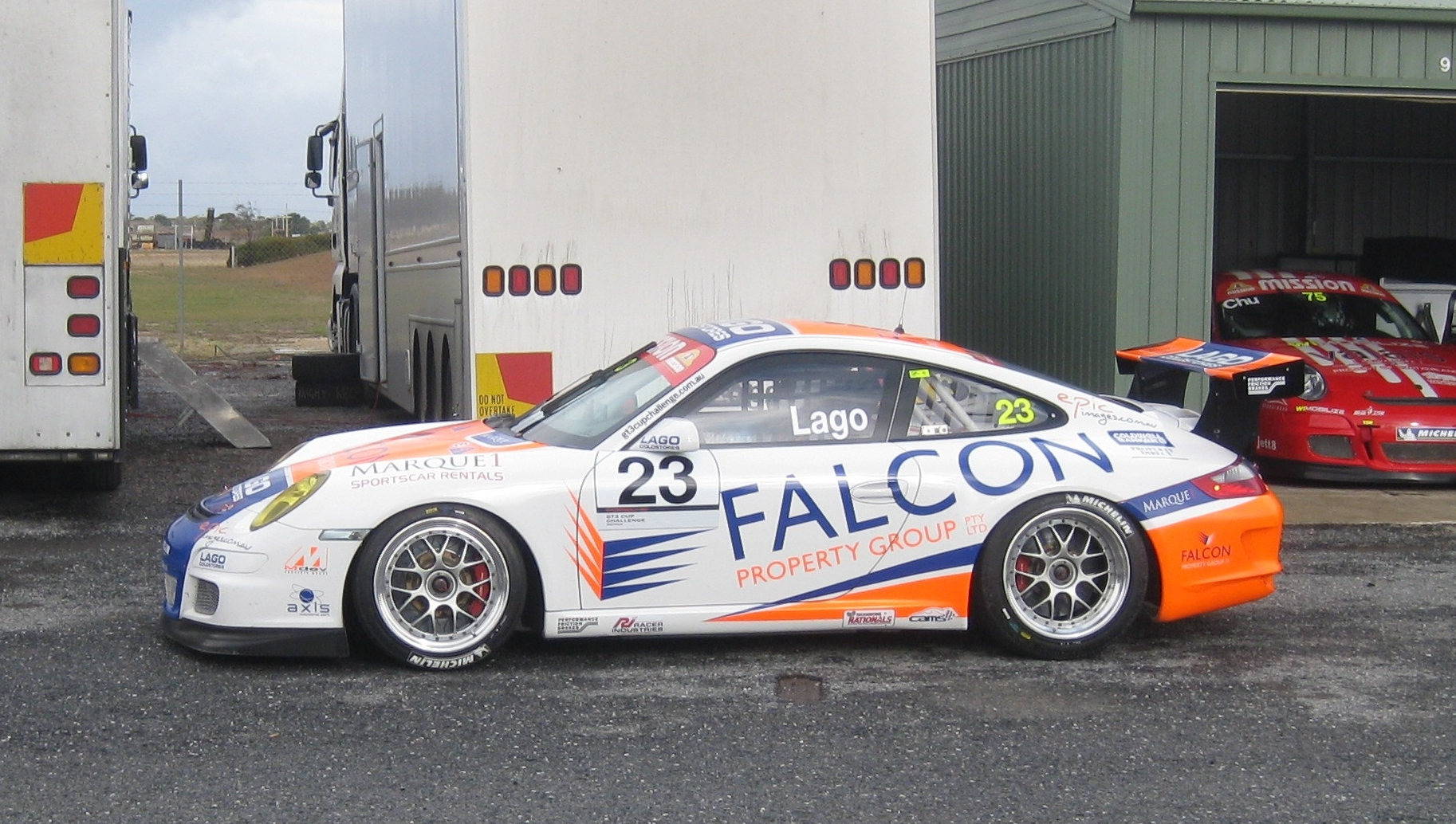 Porsche 911 GT3 Cup of Roger Lago at Mallala Motor Sport Park for Round 3 of the 2010 Porsche GT3 Cup Challenge